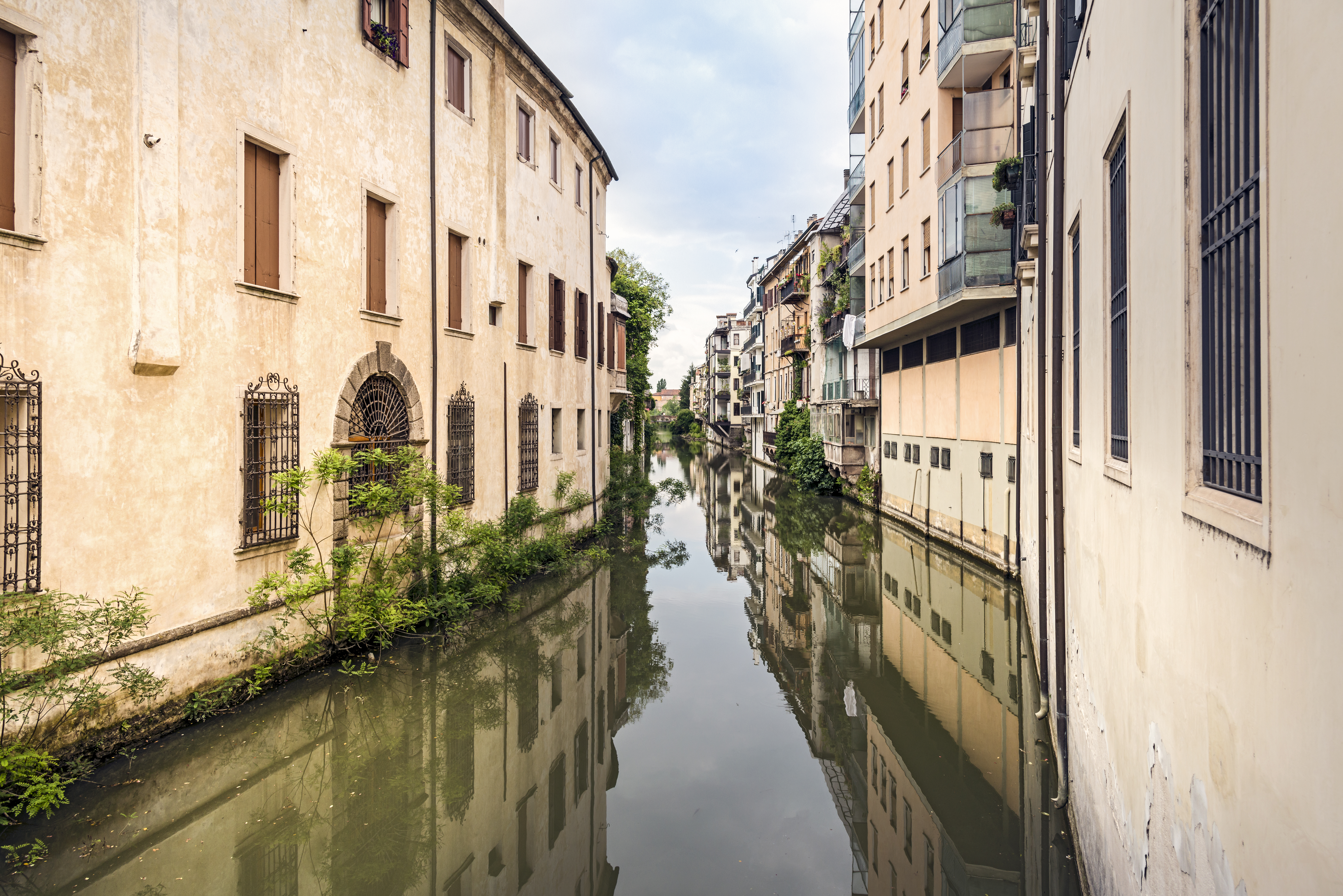 View from the Torricelle Bridge to Bridge Gregorio Barbarigo in Padua.